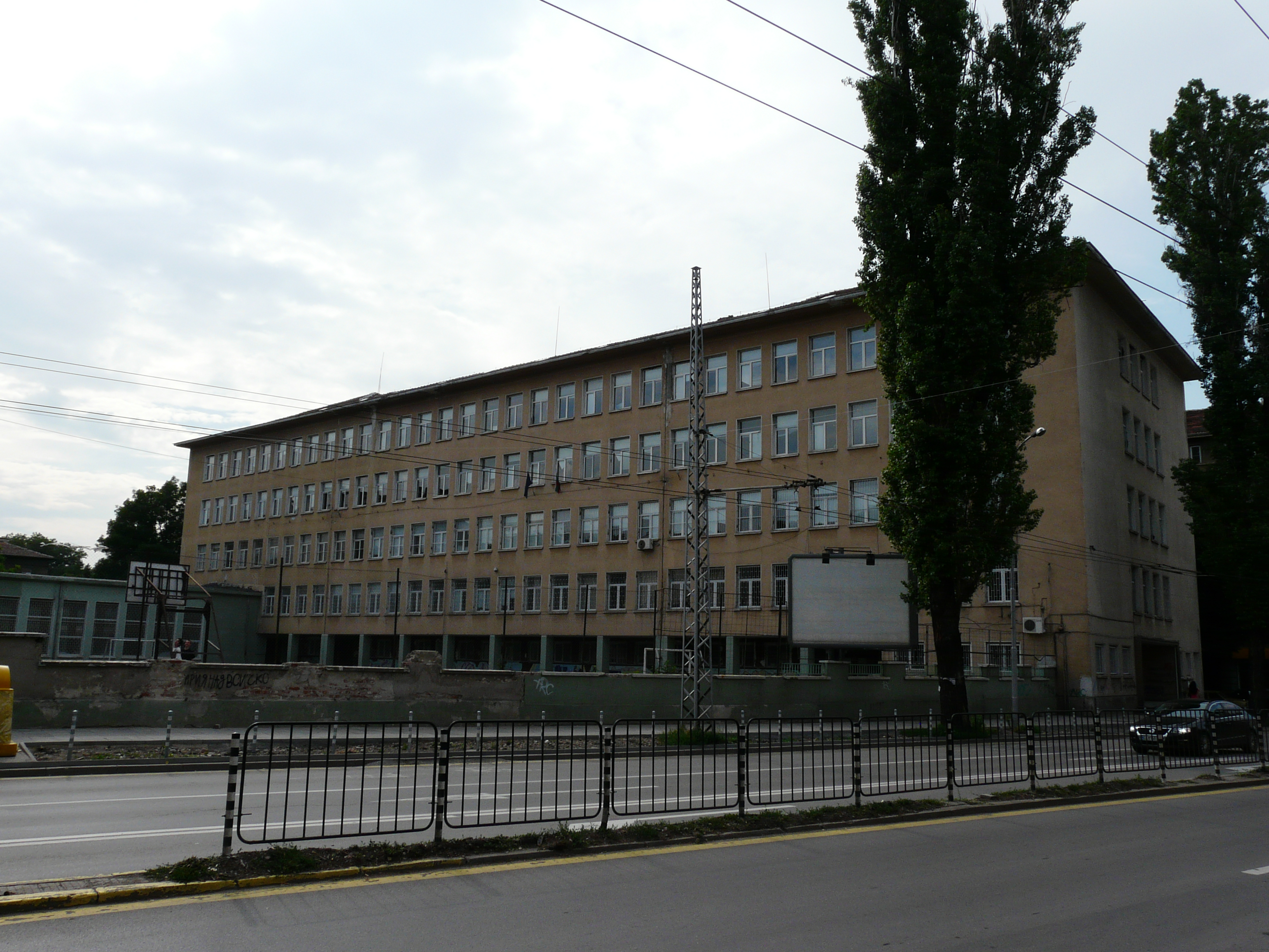 Sofia Mathematics High School